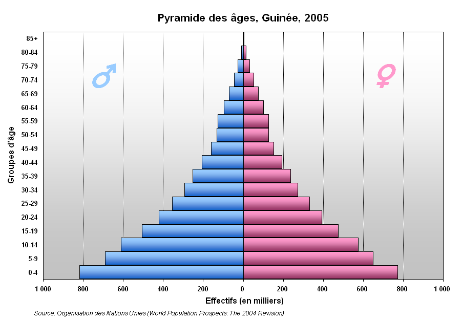 Guinea Population pyramid, 2005